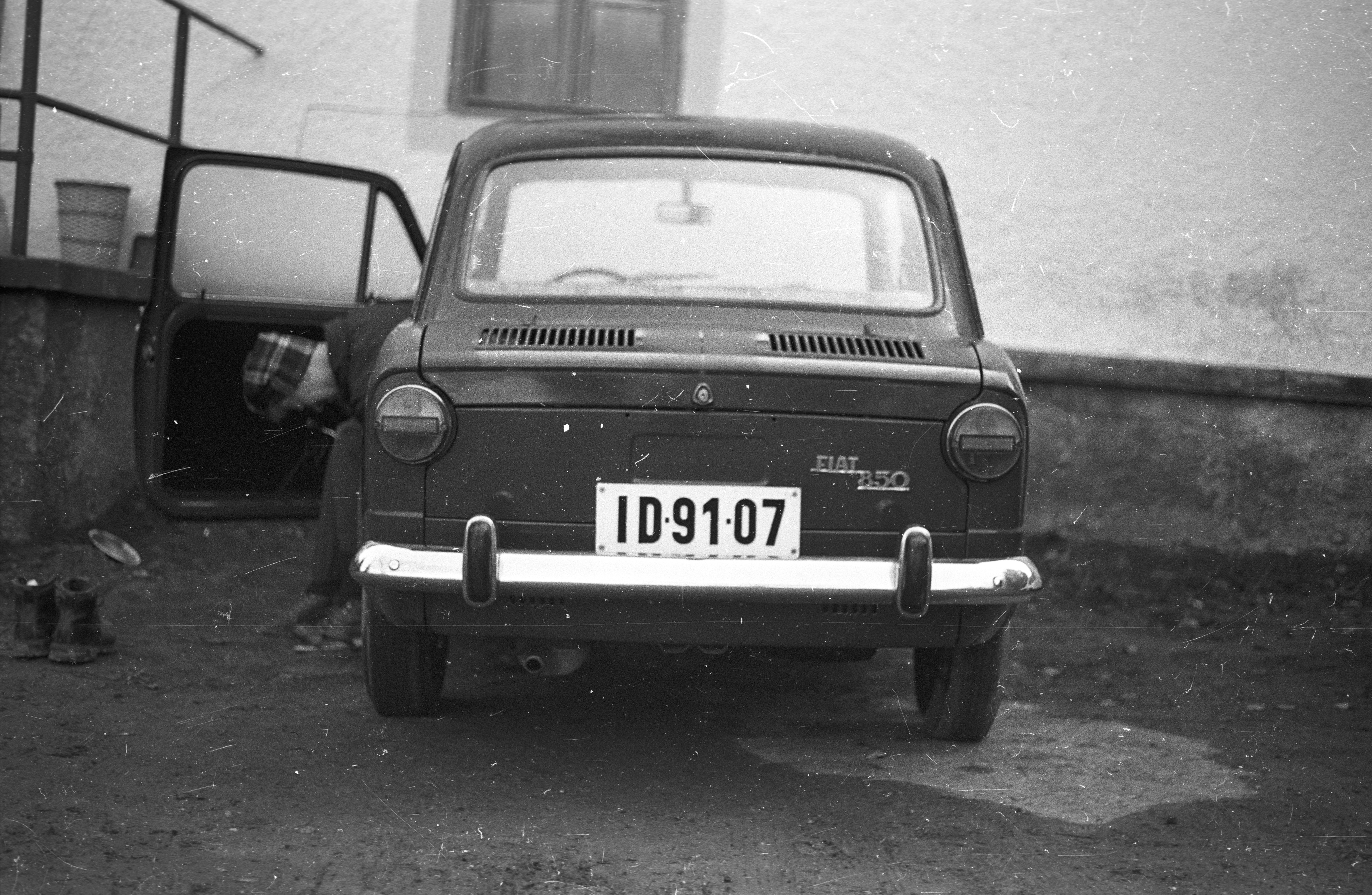 Tags: automobile, number plate, Fiat-brand, Italian brand